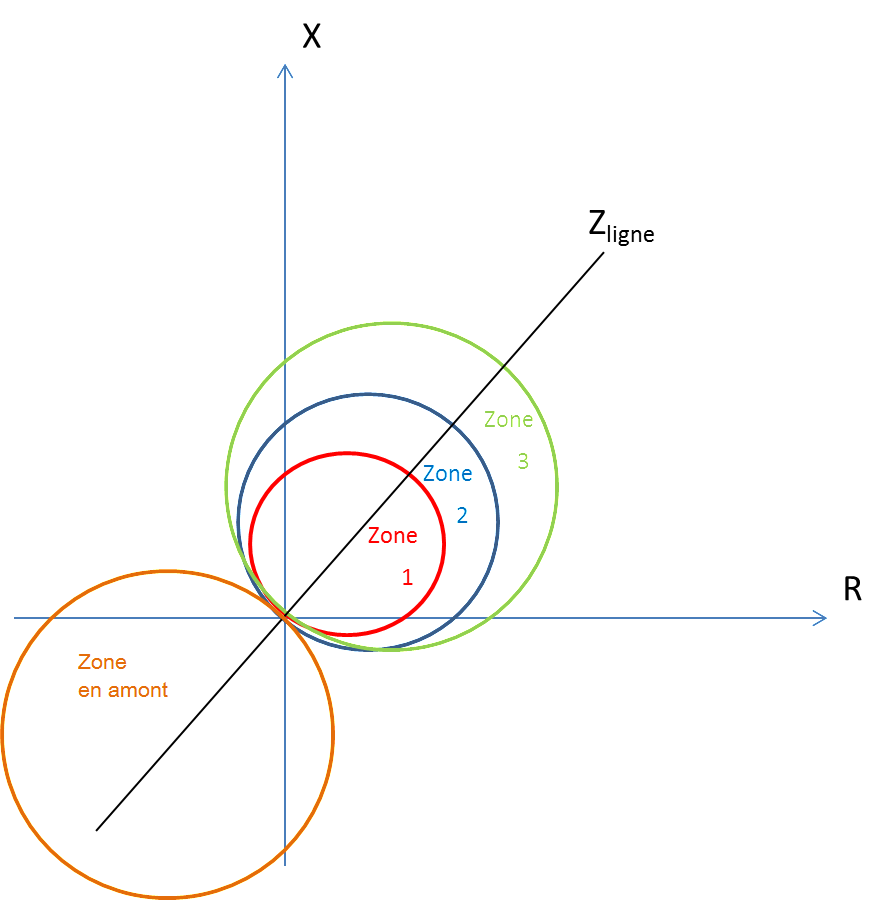 Principle of zone protection with mho distance relays.